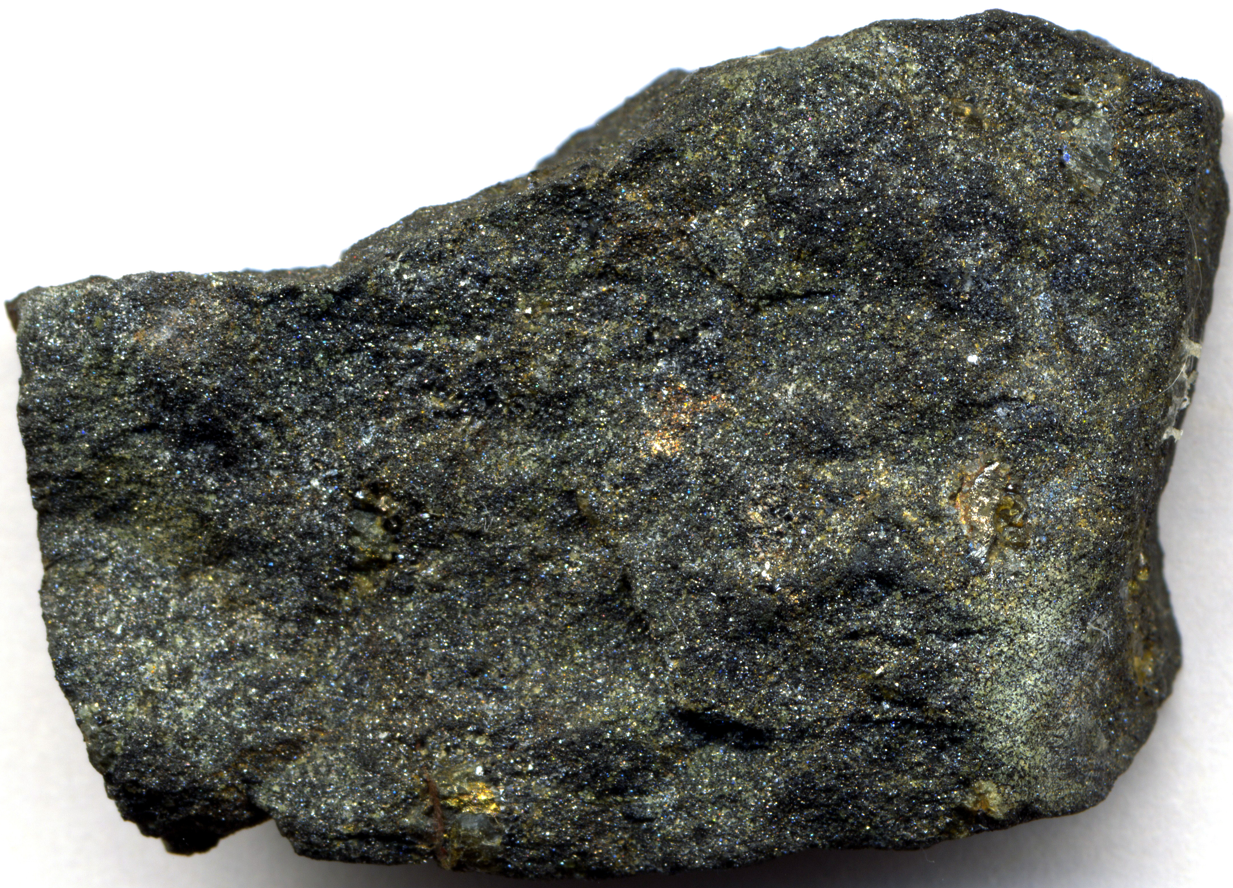 Sulfidic Chromitite from South Africa. This rock sample is 45 millimetres across at its widest. It is of mid-Paleoproterozoic age, about 2054-2055 million years old. This rock comes from Level 17 of the Rustenburg platinum mine, northwest of Johannesburg, South Africa. Stratigraphically, the sample comes from the Merensky Reef, uppermost Critical Zone, Rustenburg Layered Suite of the Bushveld Complex, a large layered igneous intrusion, which contains about 75-80% of all the world’s chromium reserves. The chromium is mined from chromitite (chromite-dominated intrusive igneous rock). All the black crystals in this rock are chromite (FeCr2O4). This chromitite also has scattered sulfides (small, metallic-lustered, brassy gold-colored masses) that are non-platiniferous. Scattered dark-colored orthopyroxene and grayish-colored plagioclase feldspar are also present.